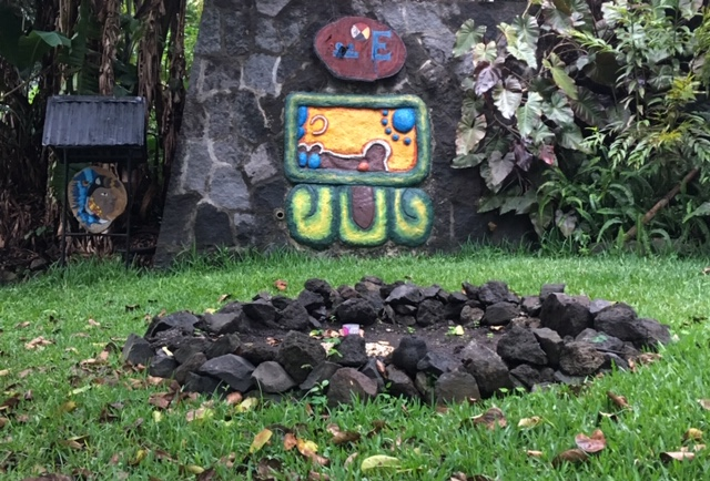 mayan cult place